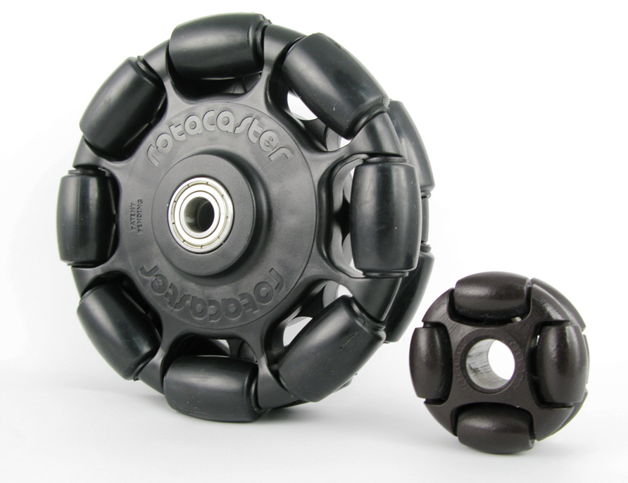 Heavy duty Omni wheel